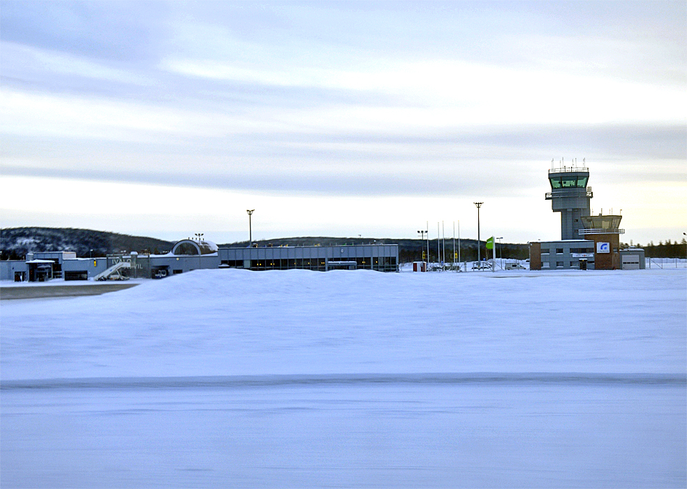 Ivalo Airport Terminal in Ivalo, Inari, Finland.